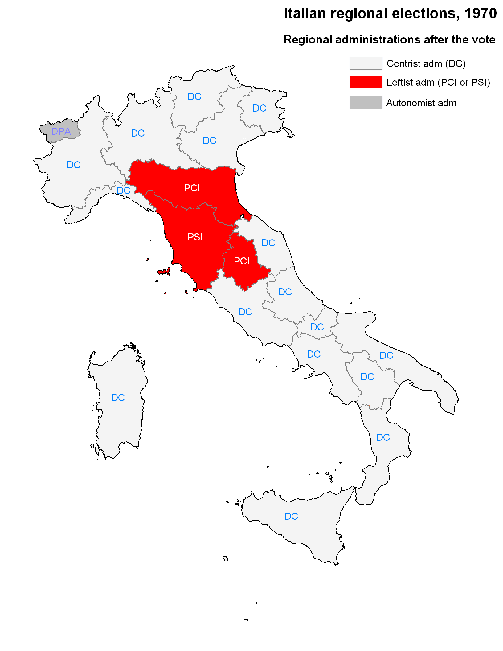 Regional administrations after the vote of 1970